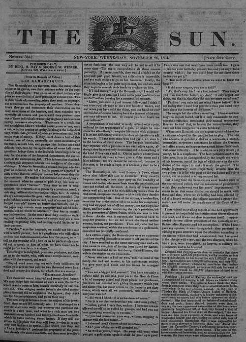 New York Sun. See File:TestataSun.jpg for masthead.